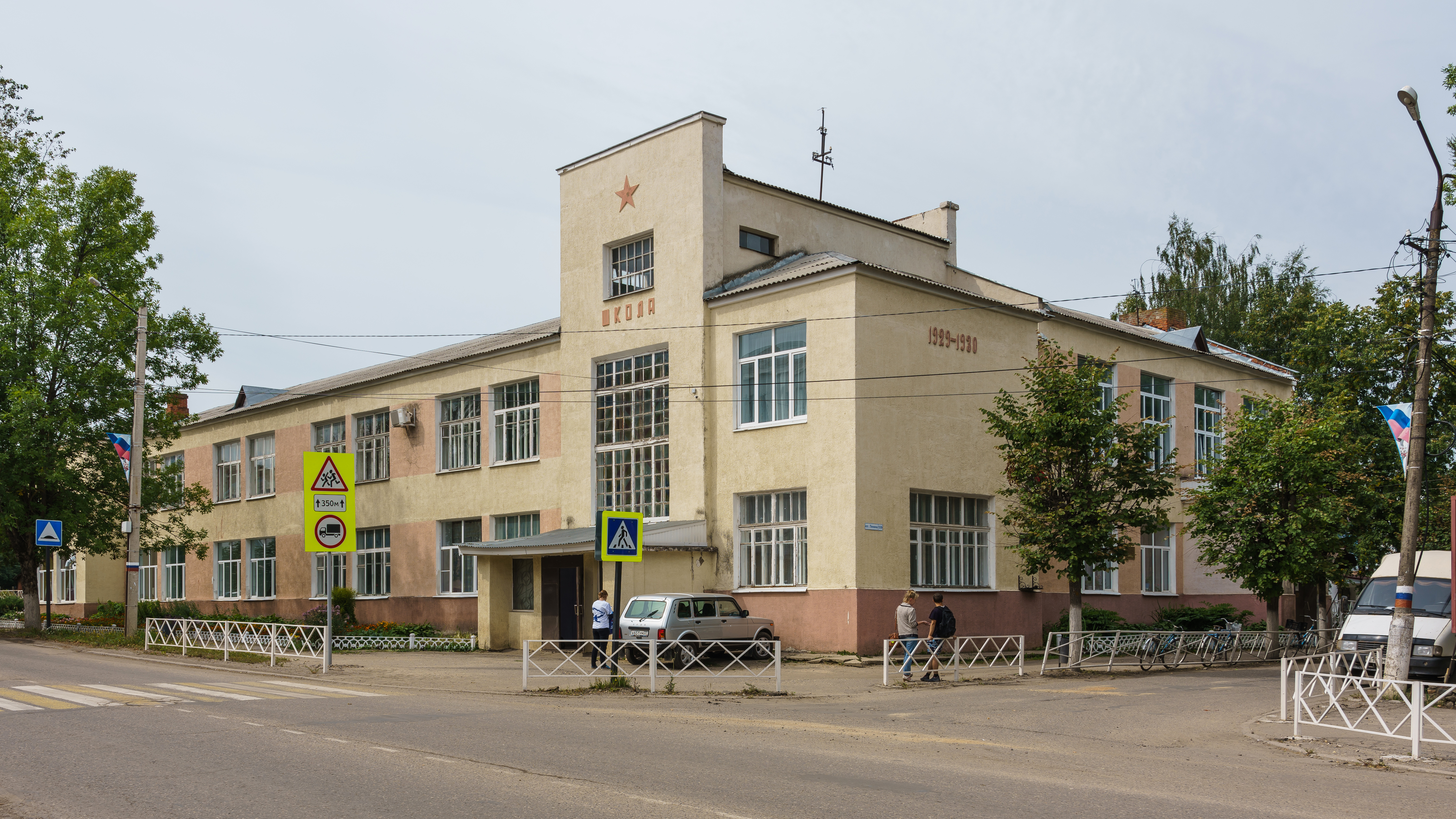 Secondary school building in Rodniki, Ivanovo Oblast, Russia.